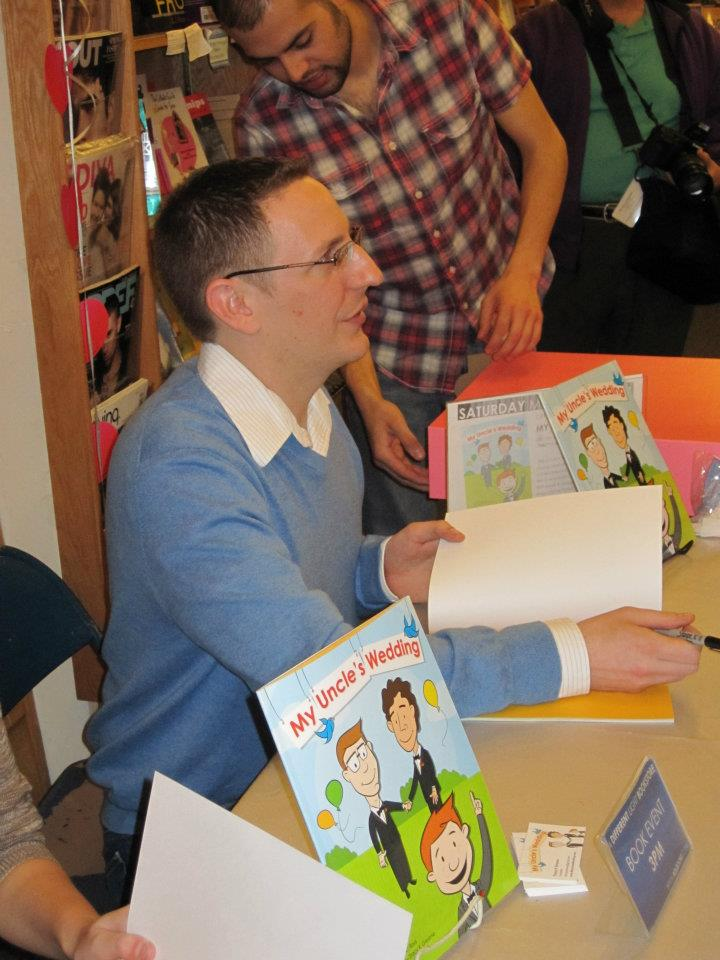 Eric Rosswood at booksigning for My Uncle's Wedding